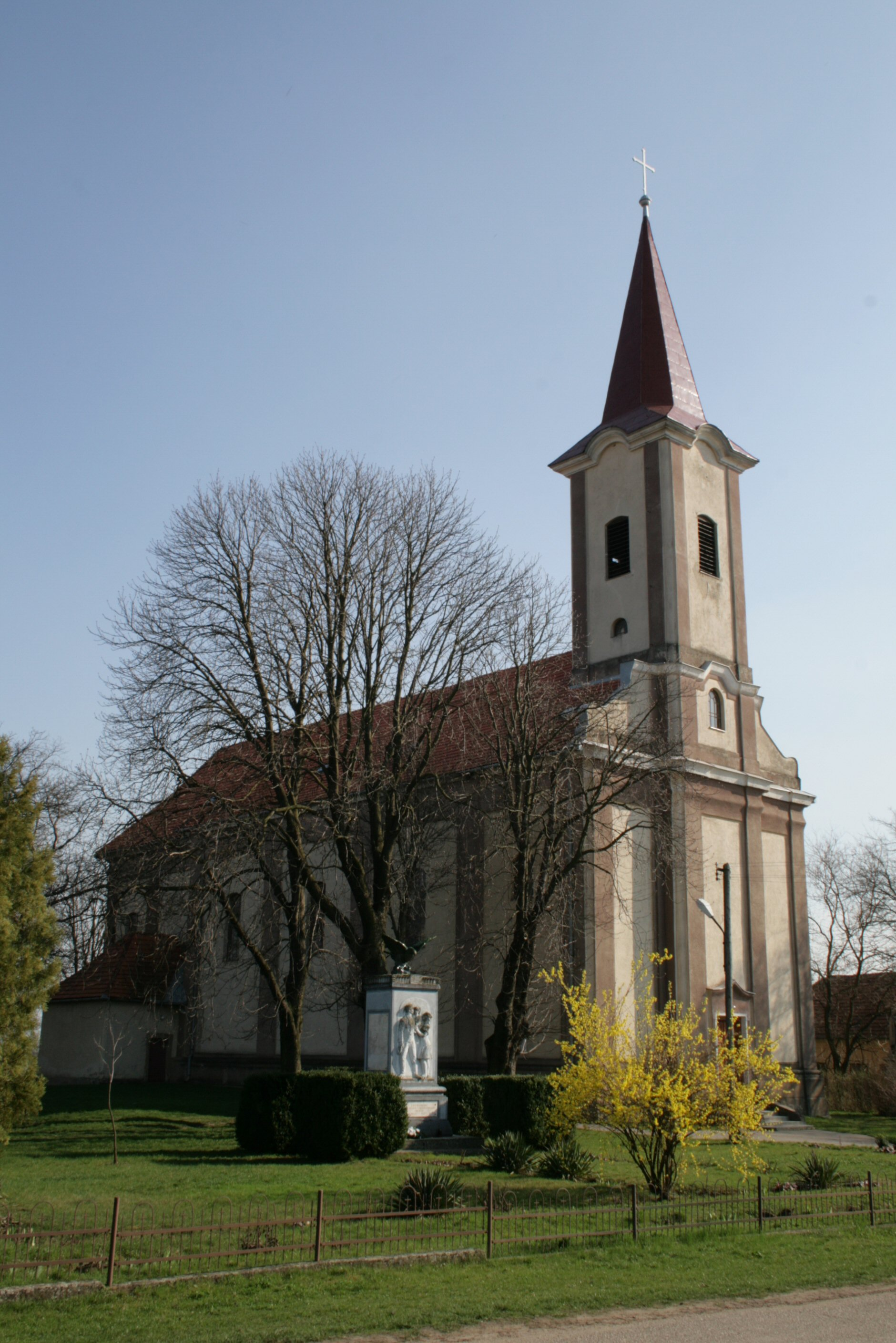 Church in Kamenín (Nové Zámky district, Slovak Republic).